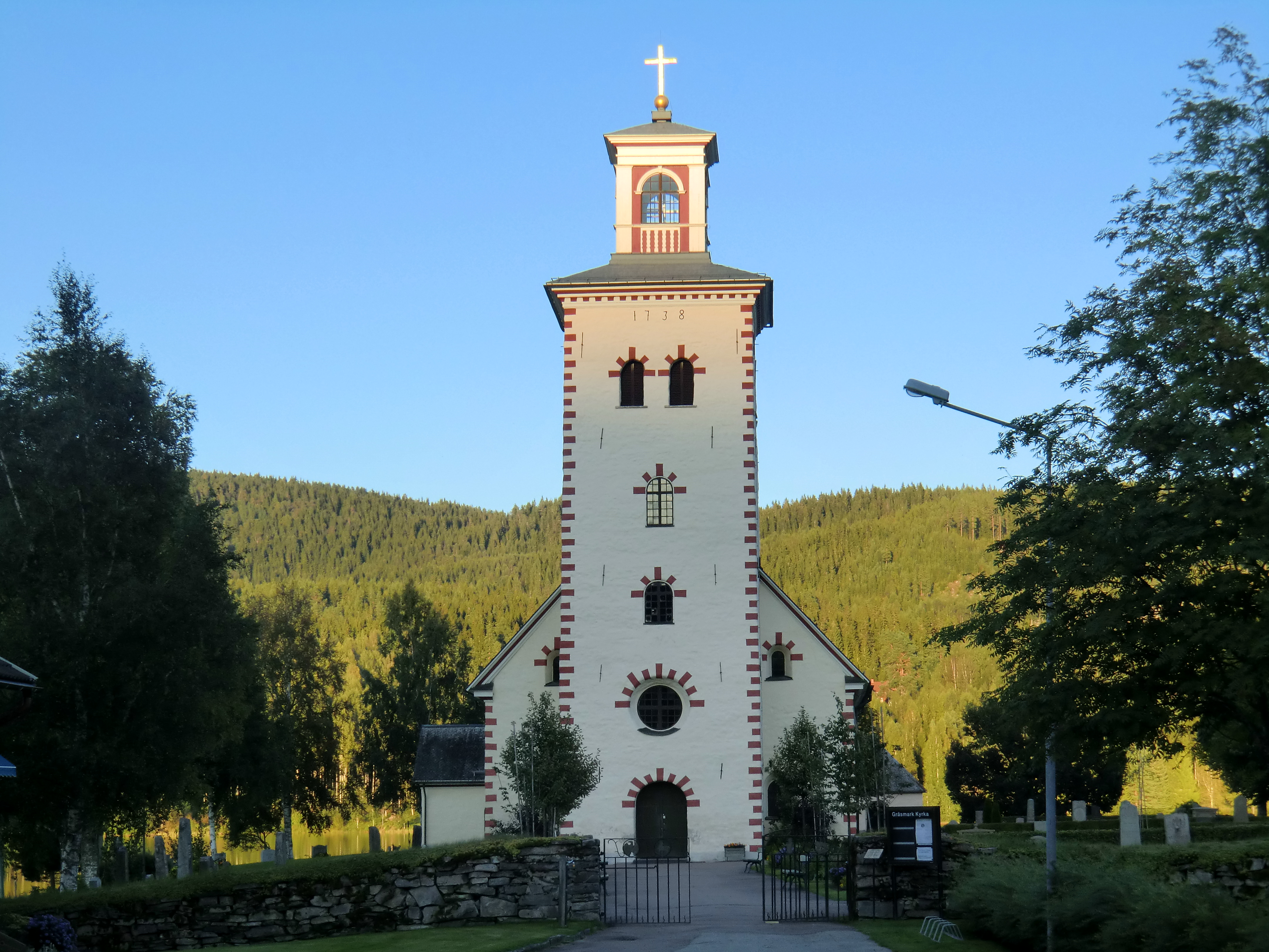 Gräsmark church in Uddheden, Värmland, Sweden.